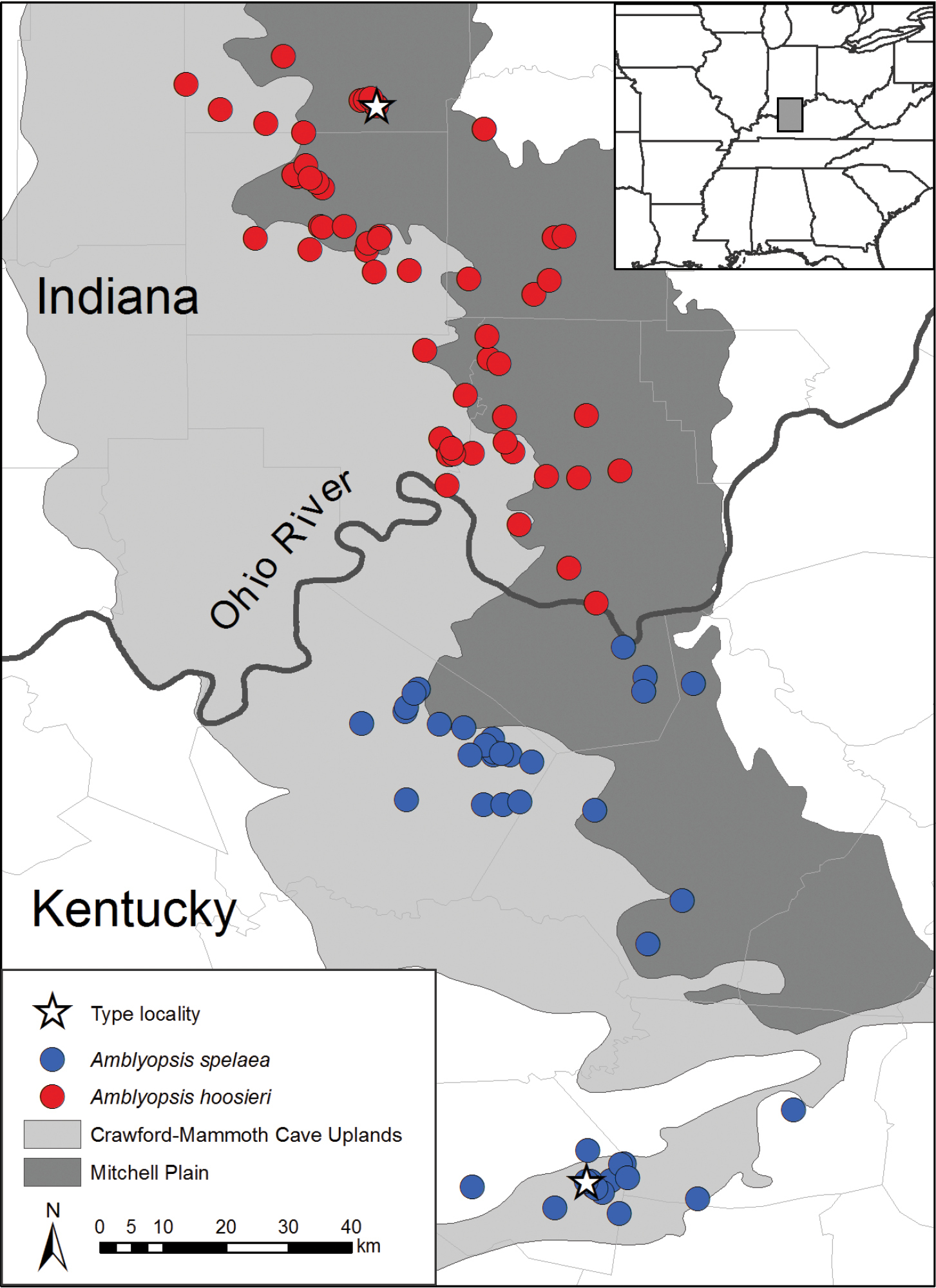 Figure 2. Distribution of Amblyopsis spp., Amblyopsis spelaea and Amblyopsis hoosieri, in the Mitchell Plain and Crawford-Mammoth Uplands of Indiana and Kentucky.